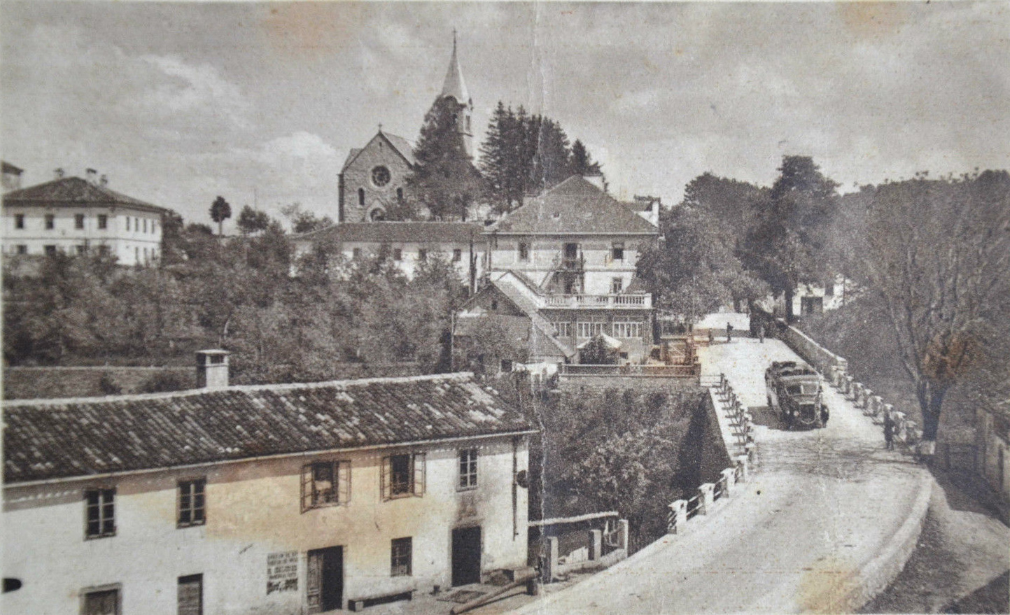 Postcard of Podgrad, Ilirska Bistrica.